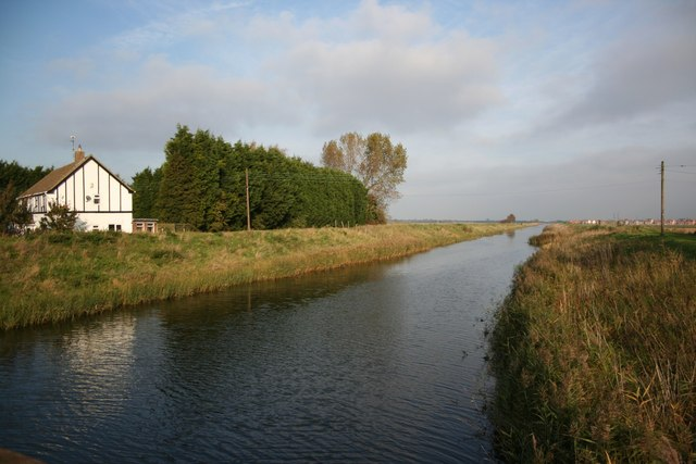 Vernatt's Drain Looking north east along Vernatt's Drain from Jobson's Bridge